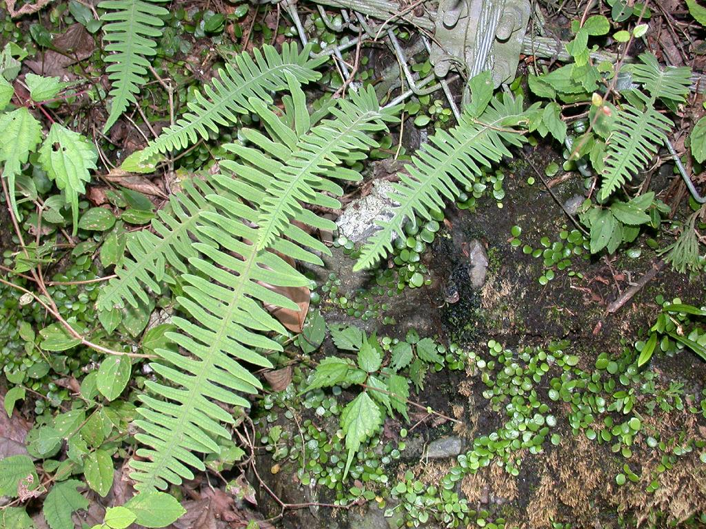 Polypodiodes nipponica (syn. Polypodium nipponicum) Polypodiaceae Japanese name:Aonekazura Date;2007,1o.23;Tanabe city, Wakayama prefecture, Japan Author;Keisotyo